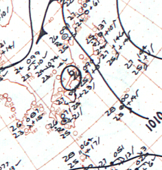 Surface weather analysis of Typhoon Wendy.